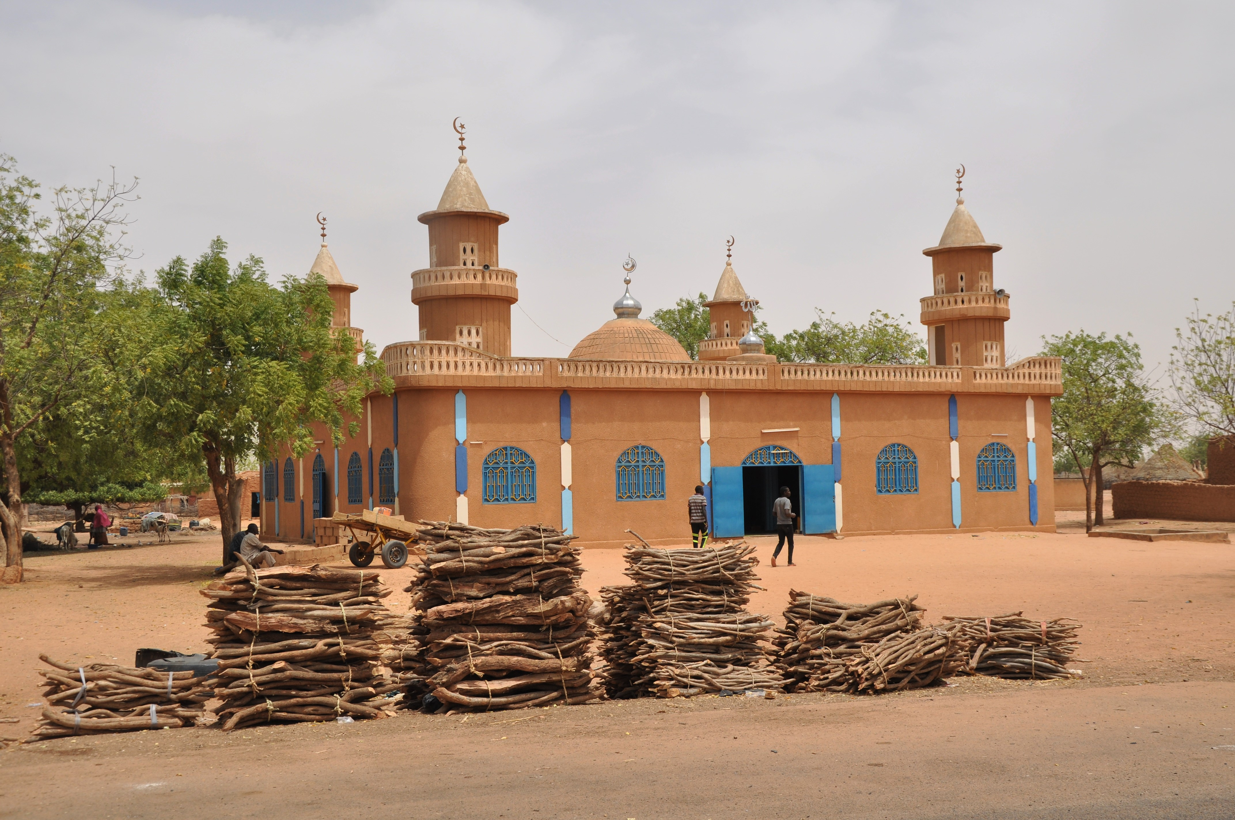 The mosque in Dar Salam, a village in the Fakara Commune (Birni N'Gaouré Department, Dosso Region, Niger). Firewood is sold in front of the mosque, on the RN-1 roadside.